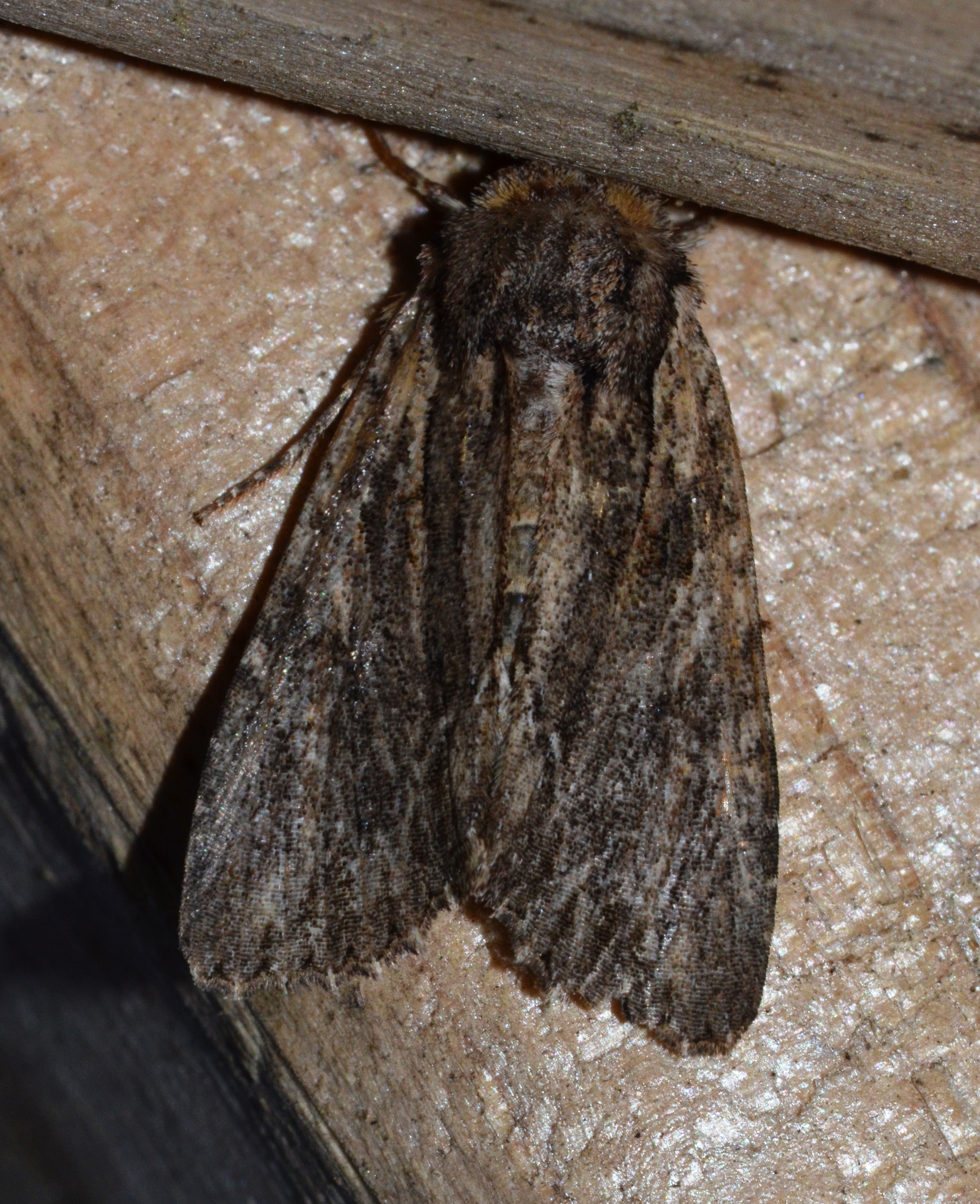 A worn moth....5/9/14 - ID thanks to the help of James McDermott, Paul Dennehy and Tomas Mustelin